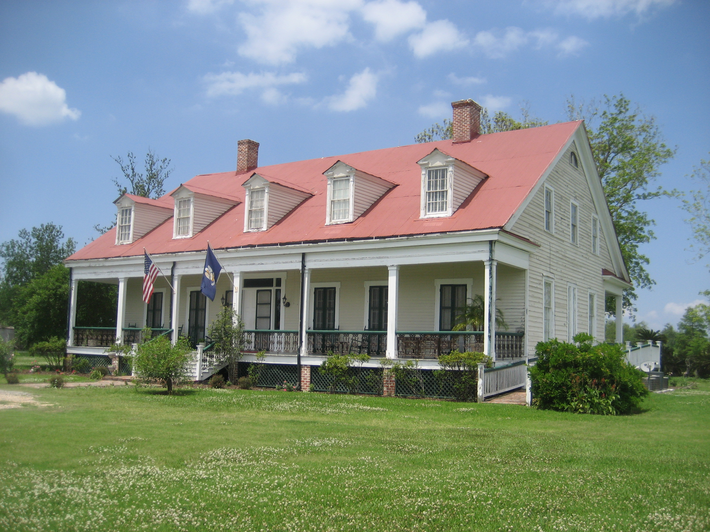 Woodland Plantation, Plaquemines Parish, Louisiana. Plantation House, exterior view